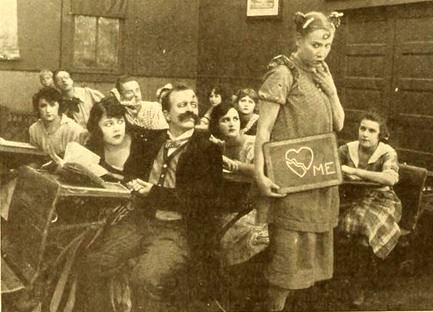 Still from the American comedy film The Village Chestnut (1918) with (sitting at the front desk) Myrtle Lind and Chester Conklin and (standing) Louise Fazenda, on page 234 of the January 11, 1919 Moving Picture World.